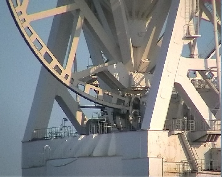 Mehanism of RT-70 telescope